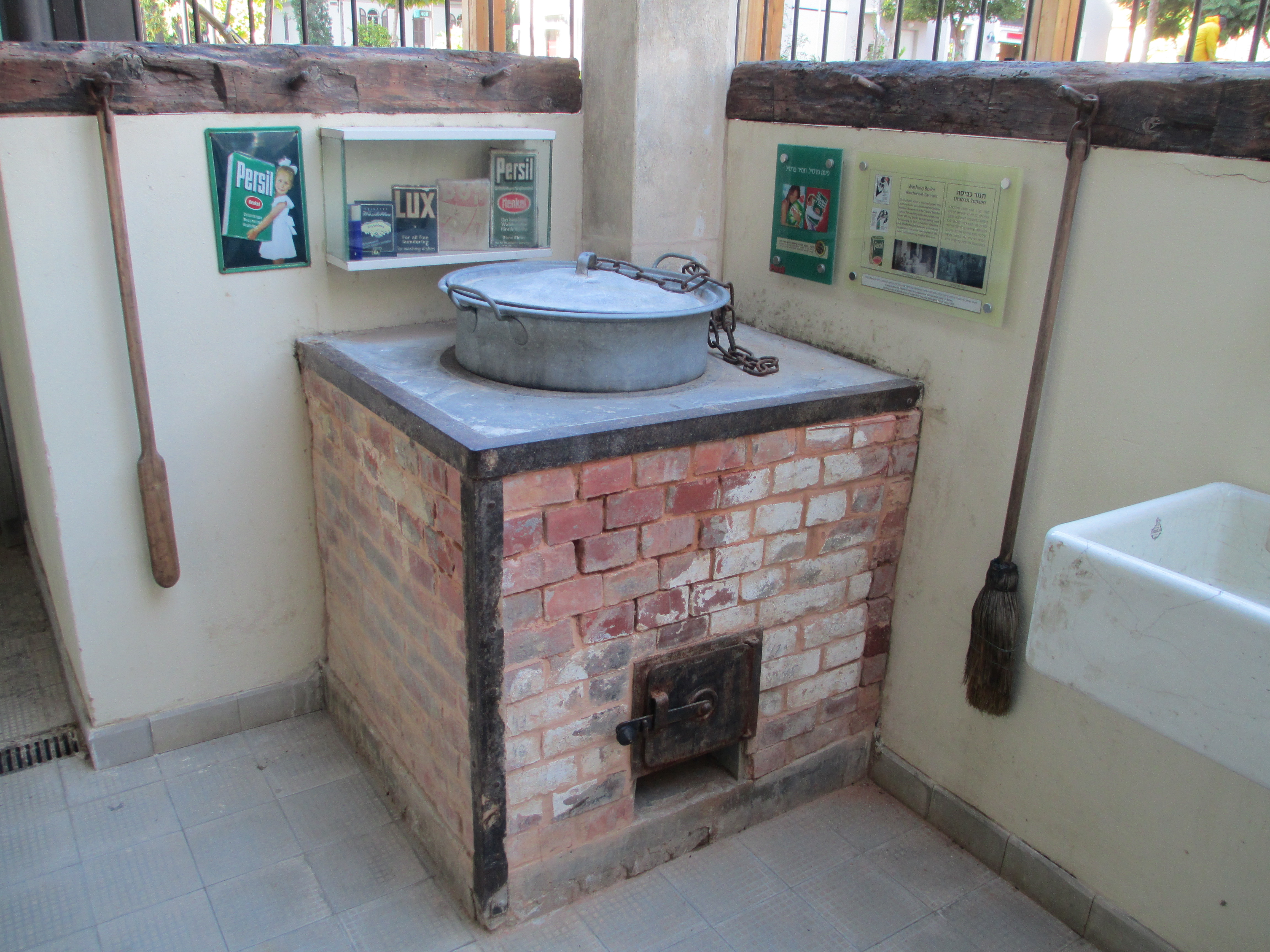 Sarona Visitors' Center - Laundry boiler with detergent products